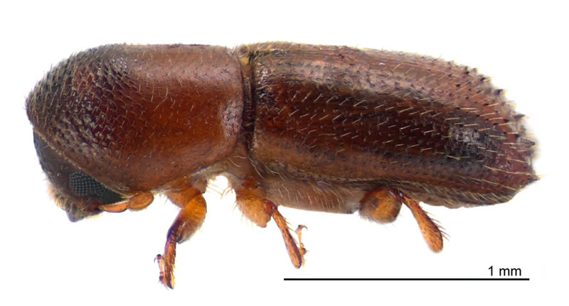 Lateral view of a specimen of Xyleborinus saxeseni photographed by Landcare Research New Zealand Ltd.